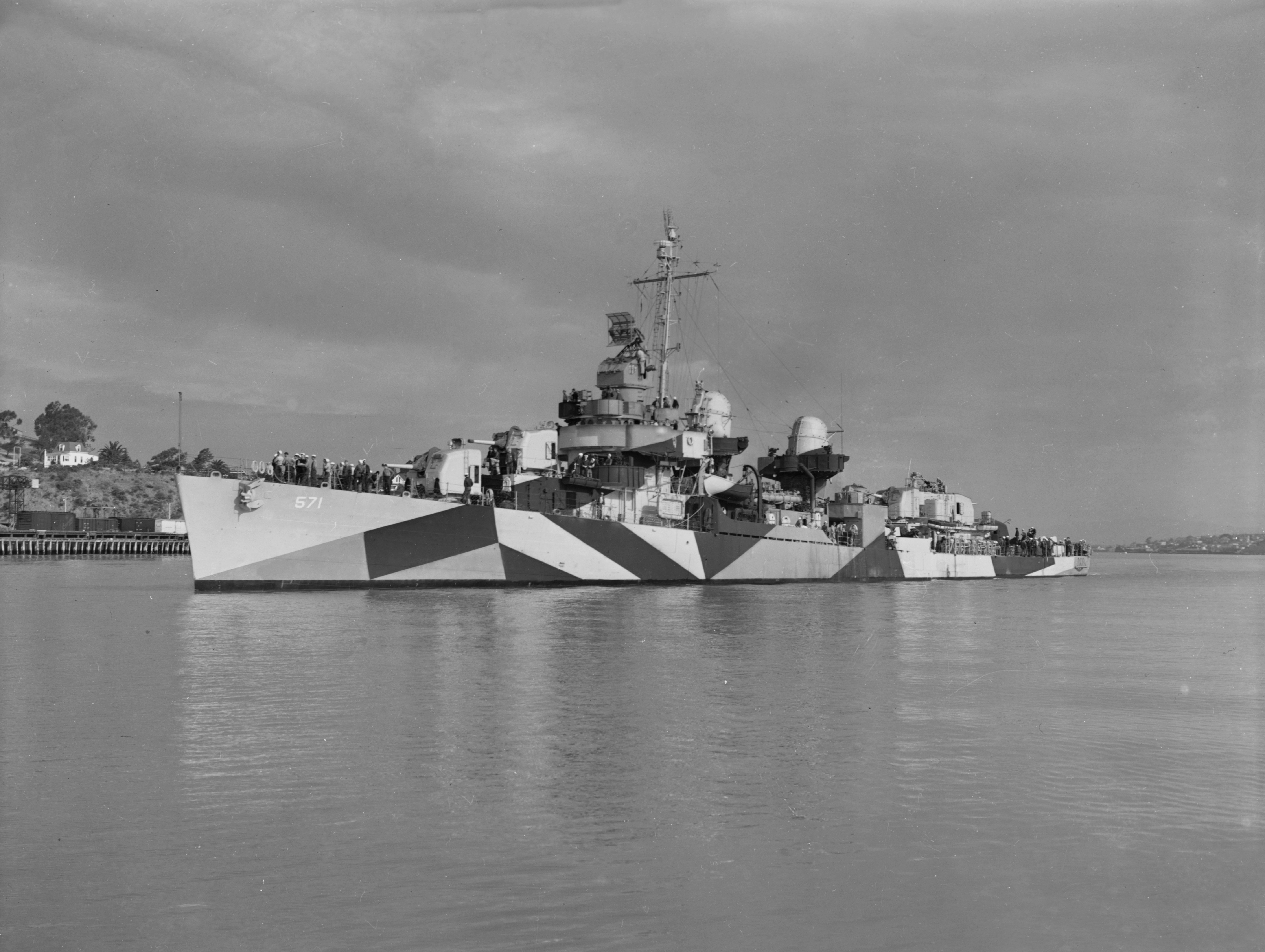 The U.S. Navy destroyer USS Claxton (DD-571) off the Mare Island Naval Shipyard, California (USA), on 13 May 1944. She is painted in Camouflage Measure 31, Design 16D.